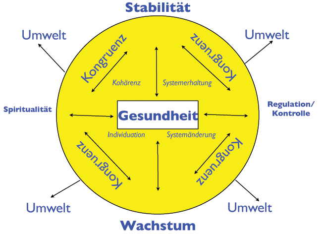 Schema des Friedemann-Modells